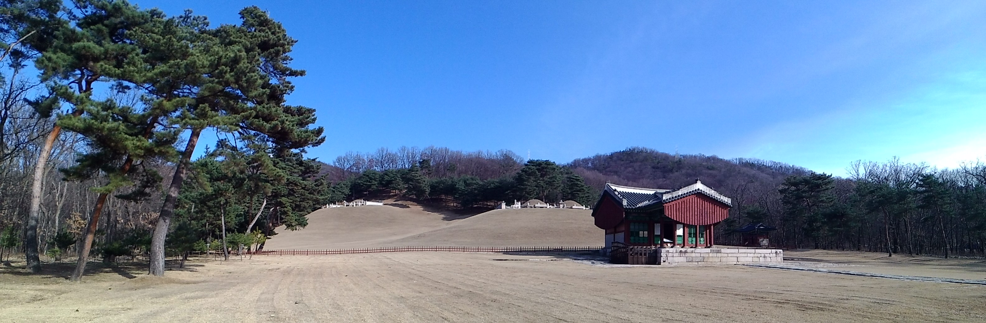 Myeongneung in Seo-oreung Cluster, Goyang City, Gyeonggi Province, South Korea. In December 2015.